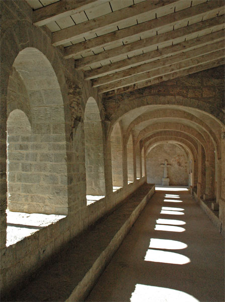 Saint-Guilhem-le-Désert, abbey. Cloister. France